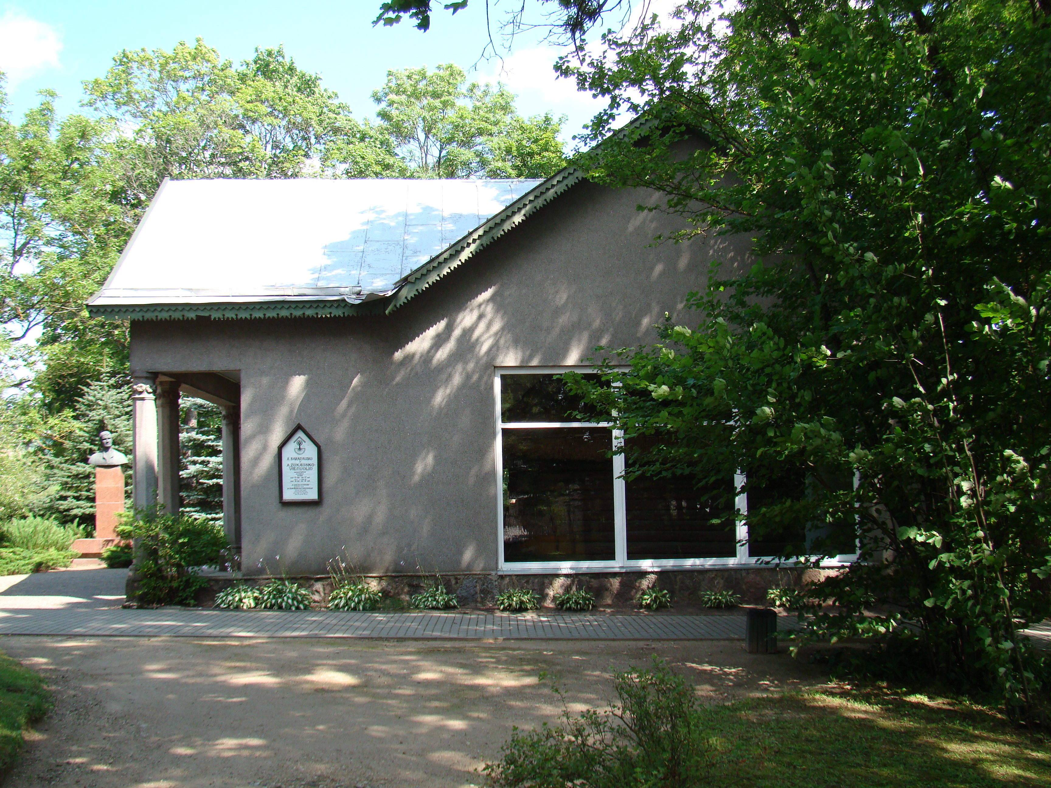 Memorial Museum A.Baranauskas end A.Vienuolis-Žukauskas, Anykščiai, Lithuania